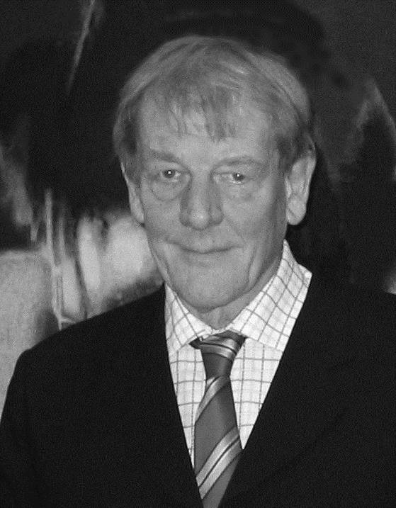 Depicted person: Per Nørgård – Danish composer